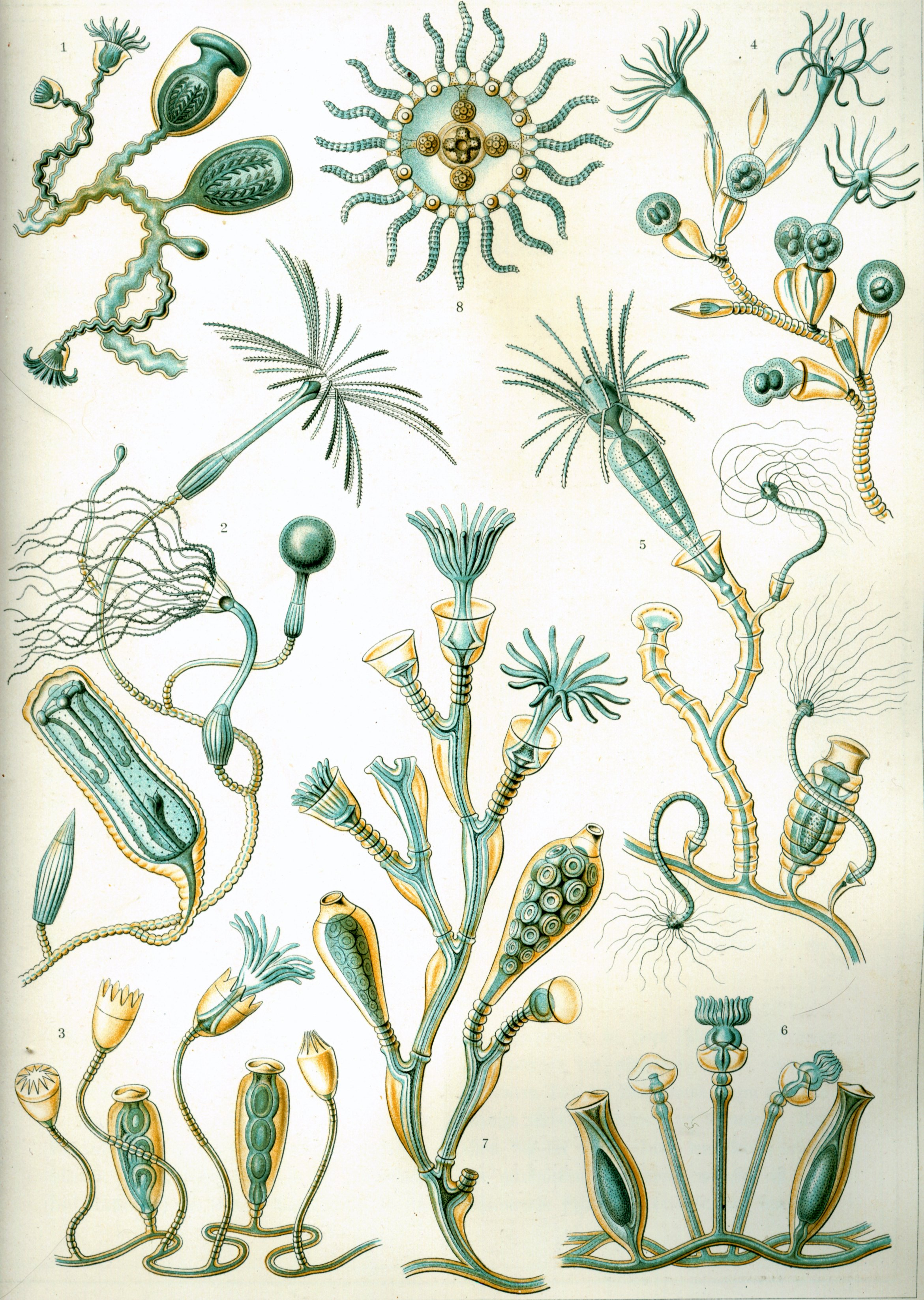 Enlarge image for index to numbers Campanulina pinnata (Haeckel) = Campanulariidae sp., colony with 3 hydranths and 2 gonophores Campanulina tenuis (Van Beneden) = Campanulina tenuis van Beneden, 1847, colony with 2 hydranths and a gonophore Campanularia ptychocyathus (Allman) = Clytia noliformis (McCrady, 1859)?, colony with 4 hydranths and 2 gonophores Opercularella lacerata (Hincks) = Opercularella lacerata (Johnston, 1847), colony with 3 hydranths and 6 gonophores Ophiodes mirabilis (Hincks) = Hydrodendron mirabile (Hincks, 1866), colony with 1 hydranth, a gonophore, and 3 defensive polyps Hypanthea hemisphaerica (Allman) = Clytia hemisphaerica (Linnaeus, 1767), colony with 3 hydranths and 2 gonophores Obelaria geniculata (Haeckel) = Obelia geniculata (Linnaeus, 1758), colony with 3 hydranths and 2 gonophores Obelia lucifera (Haeckel) = Obelia lucifera Forbes, 1848, medusa